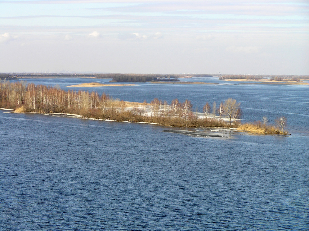 Dnieper River near Tripolye. Photo courtesy of Petro Vlasenko